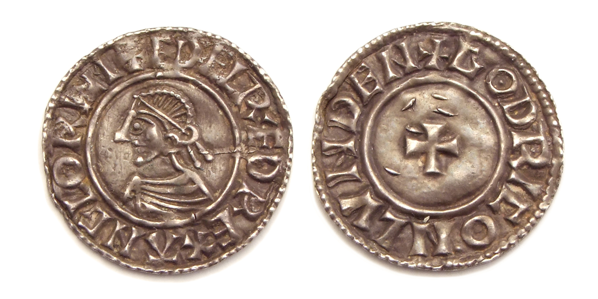 Small cross type penny with portrait of King Aethelred II, struck in London. Obv: EDELRED REX ANGLORUM Rev: GODRIC ON LUNDEN